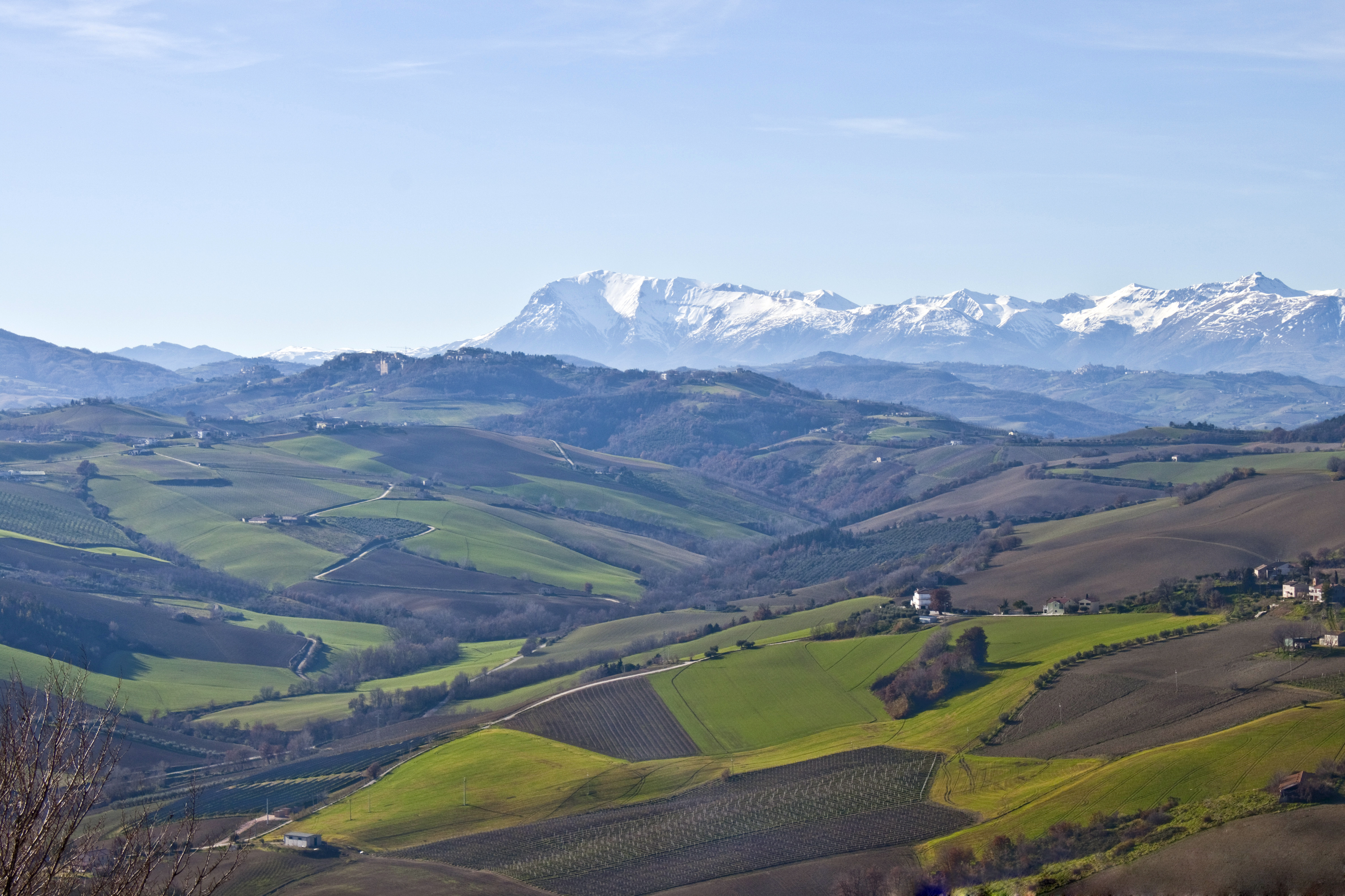 View of Mount Vettore and Valmenocchia froma Carassai, AP, Italy